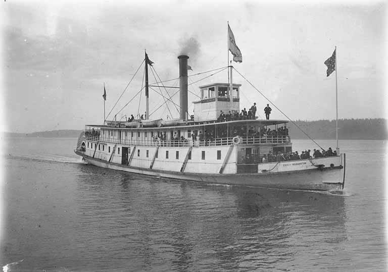 State of Washington (sternwheeler) 1895